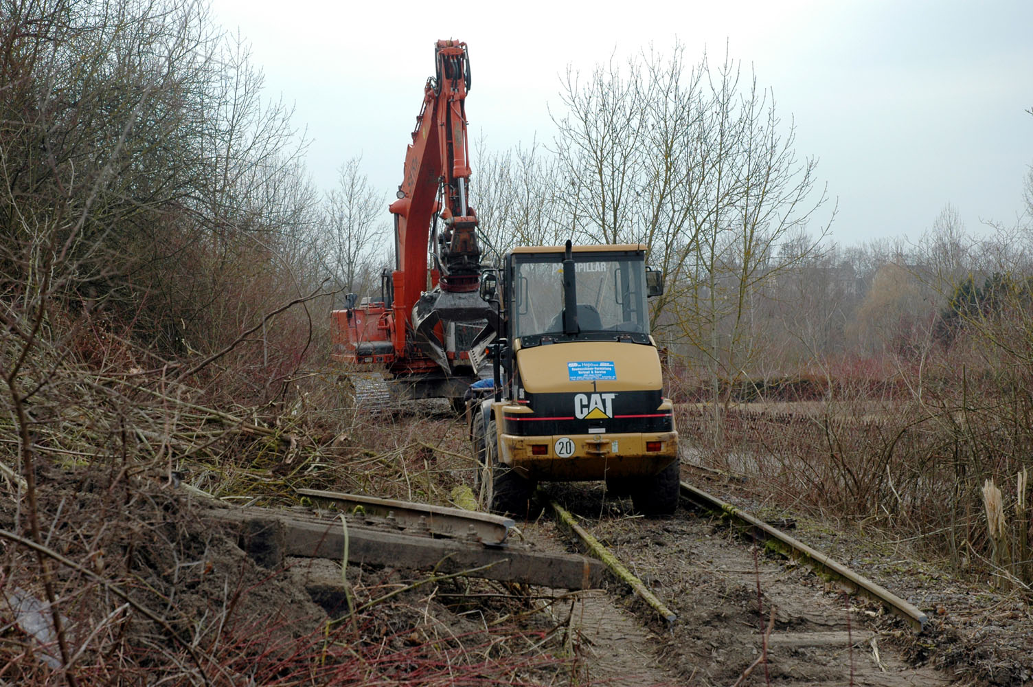 breaking off of lower Kocher valley railway near Oedheim.